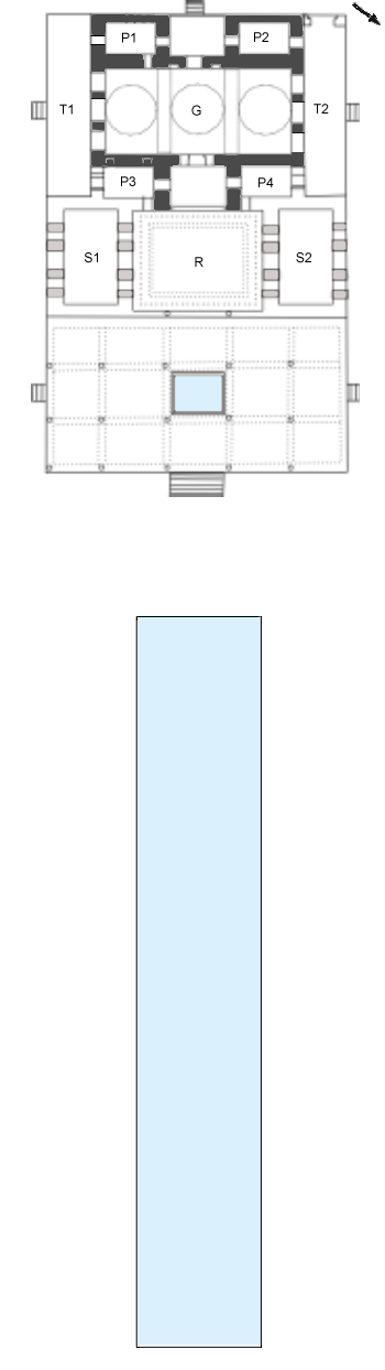 Chehel Sotun Palace (personal drawing made using Photoshop)